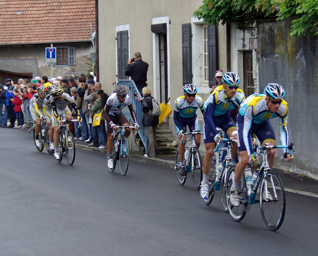 Front of the peloton during stage 14 of the 2009 Tour de France.